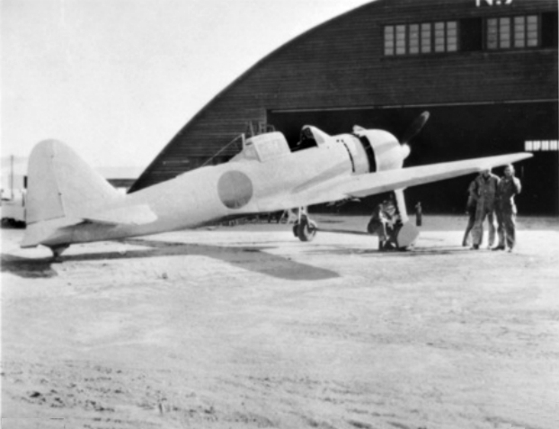 A captured Japanese Mitsubishi A6M3 model 32 fighter aircraft rebuilt by the Technical Air Intelligence Unit (TAIU) in Hangar 7 at Eagle Farm, Queensland (Australia), outside the unit's hangar. The allied code name for this version of the Zero was Hamp.